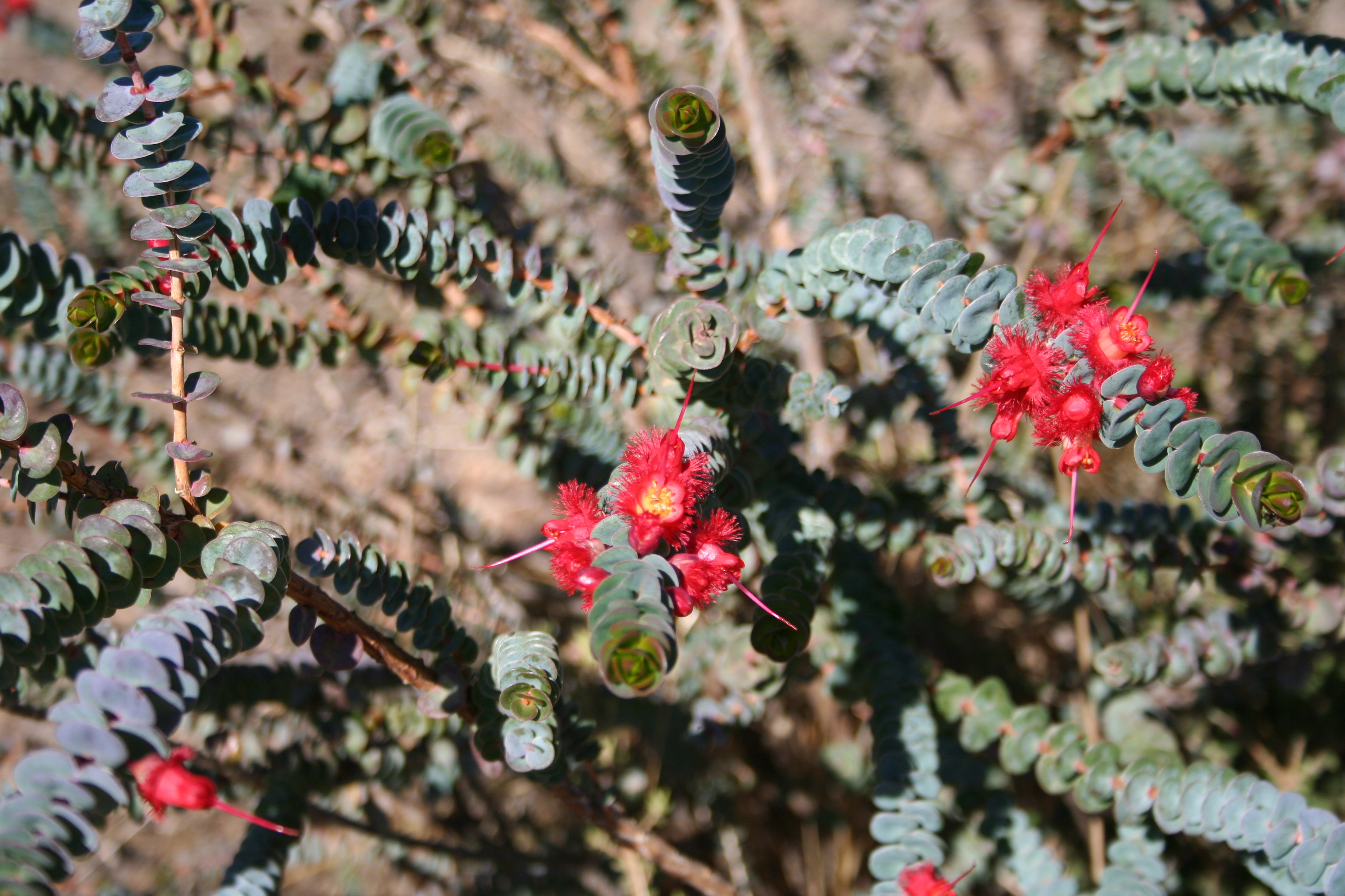 Verticordia grandis, closeup of flower, Rose Thomson Rd, WA